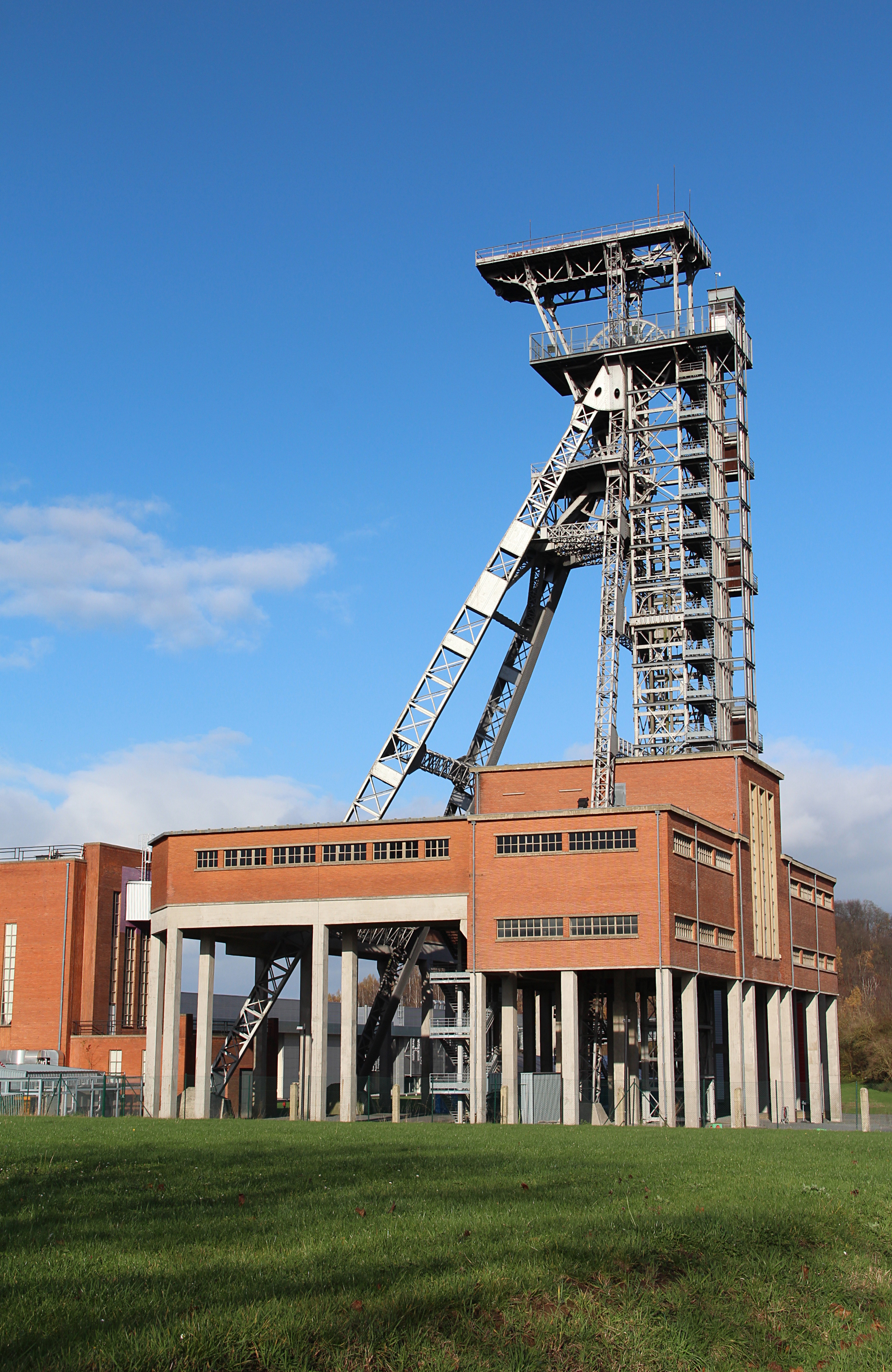 Frameries (Belgium), rue de Mons – The former coal mine of the Crachet Picquery afte renovation.